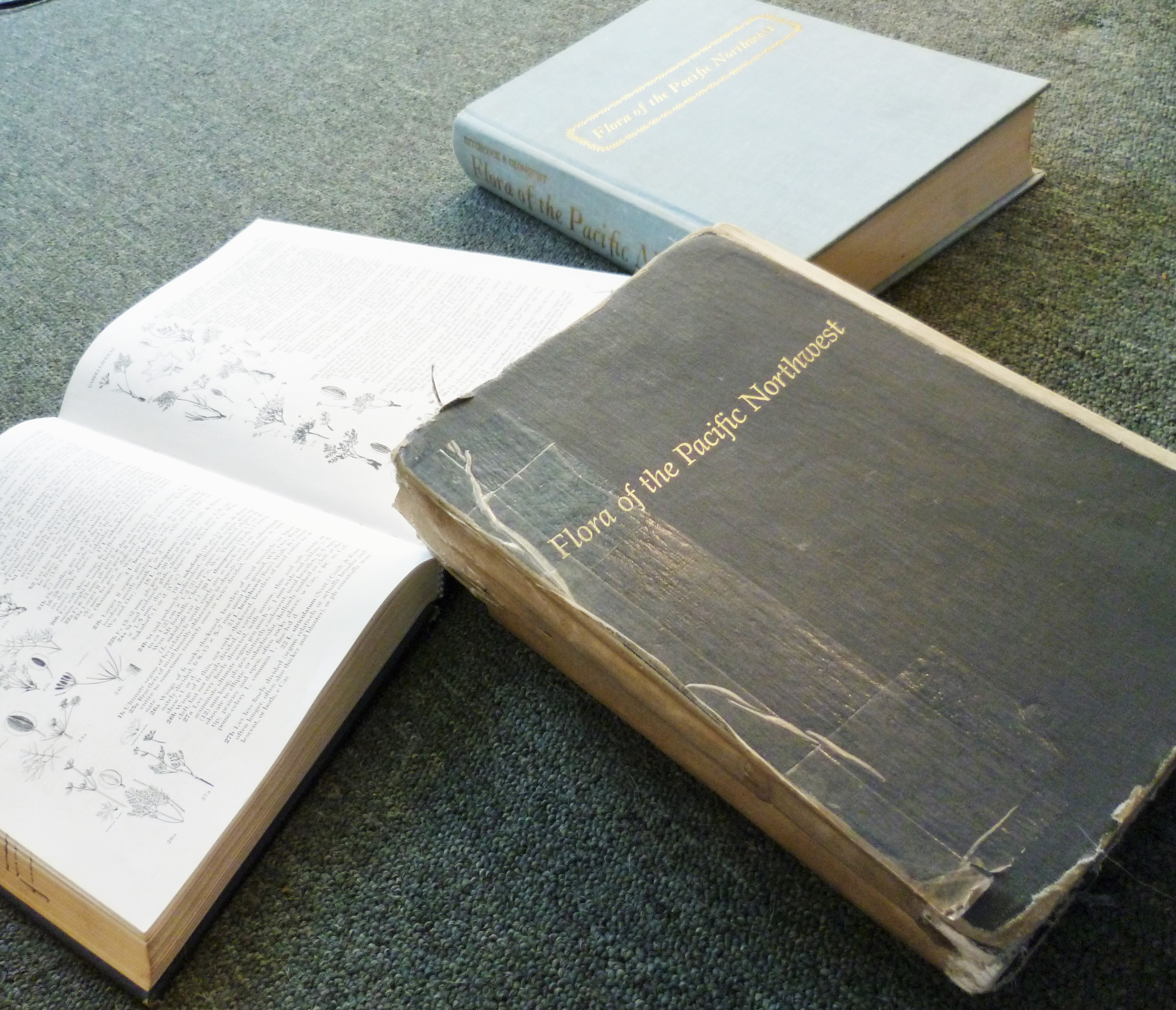 Flora of the Pacific Northwest, 1st Edition in the right upper and two later prints to the left, one very field worn. By Charles Leo Hitchcock, Arthur Cronquist, Marion Ownbey, and J. W. Thompson. By most standards this book is extremely outdated with almost half of the species names and families having changed, and most states are trying to put forth their own floras but British Columbia is the only region so far to publish a newer flora.